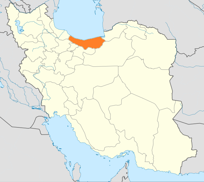 Locator map of Iran